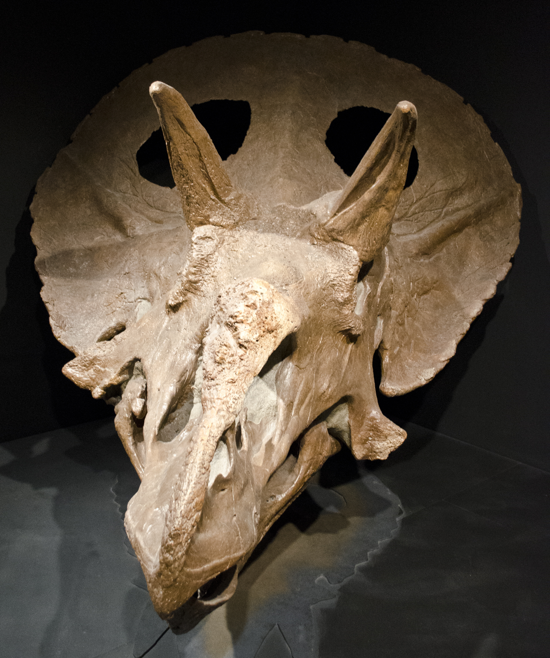 An adult Triceratops horridus (MOR 1122) skull collected in Fergus County, Montana, on display at the Museum of the Rockies in Bozeman, Montana. Note the heavily grooved horns above the eyes. DISCLAIMER: Note this is actually a skull of Torosaurus, but Museum of the Rockies curator, John R. "Jack" Horner published a paper with John Scanella that claims that Torosaurus is merely the full mature form of Triceratops. Eventhough this thesis is still under debate, Horner decided all specimens of Torosaurus in Museum of the Rockies will be renamed as Triceratops.